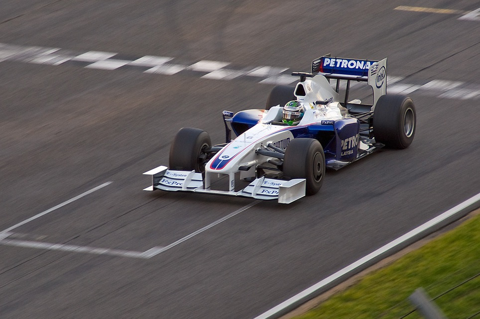 BMW F1.09 at pre-season testing. Heidfeld sports new helmet 1/320s - F/9 - 200mm - ISO200